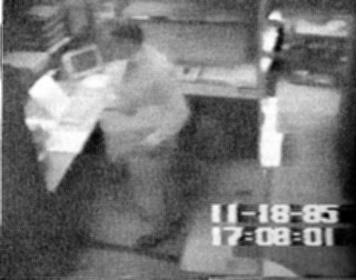 Video frame of Jonathan Pollard surveillance. Scanned from Capturing Jonathan Pollard, Ronald J. Olive, P.196. Original work of US Government.